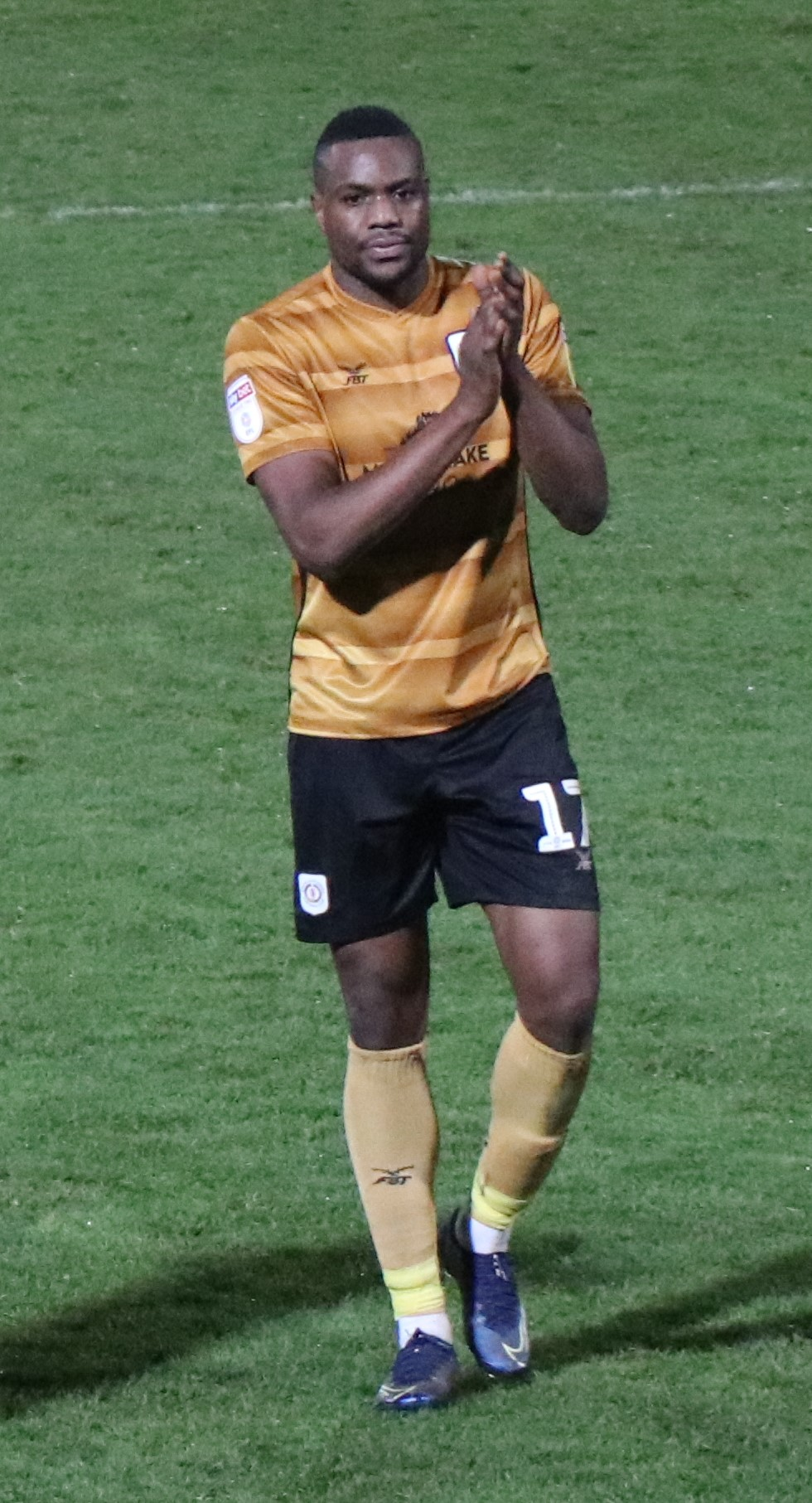 Norwegian footballer Chuma Anene, pictured at Stevenage on 21 December 2019